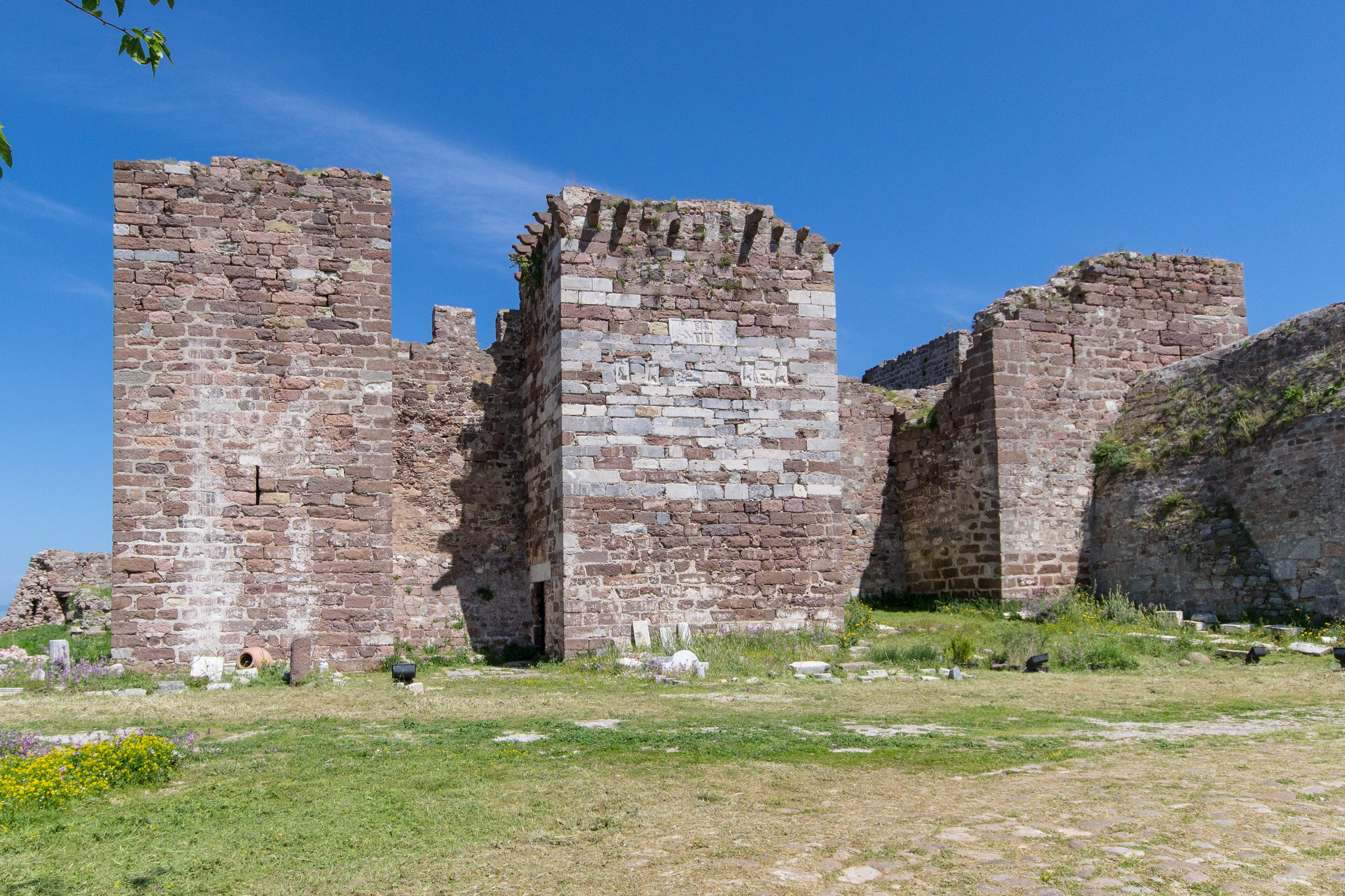 Fortress of Mytilini - the Gattilusi palace